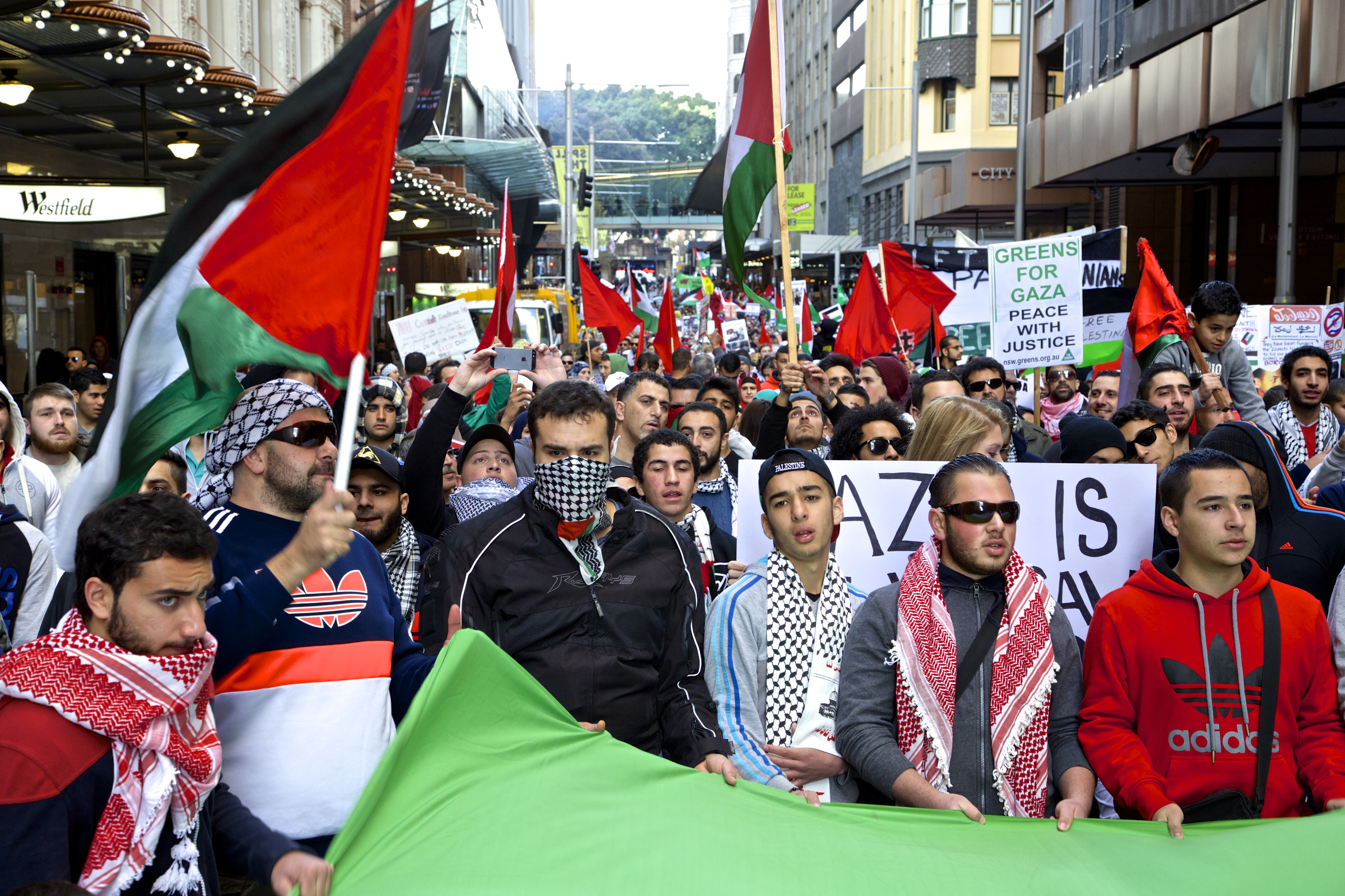 Rally for Palestine